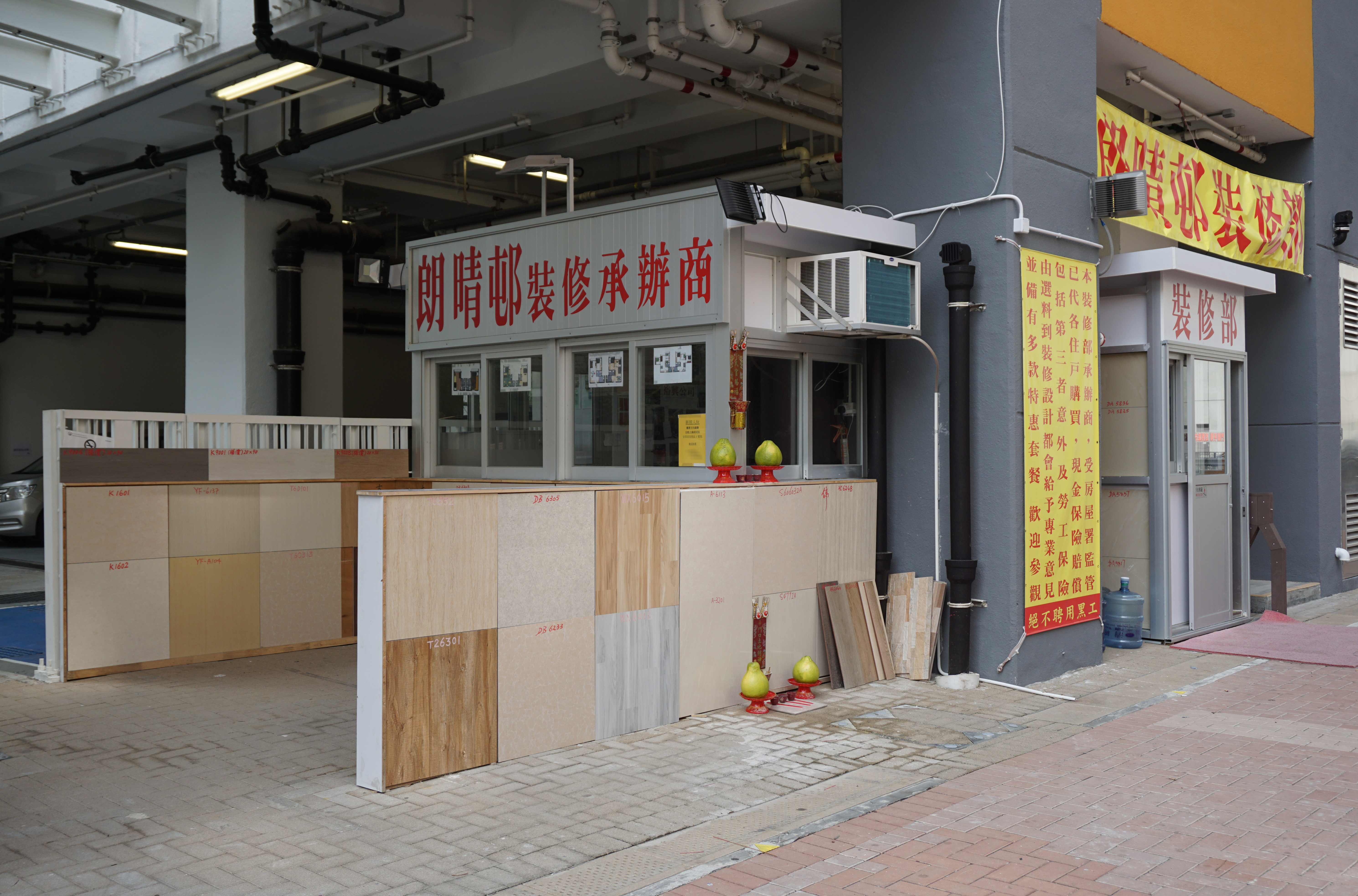 Long Ching Estate in Long Ping, Hong Kong.